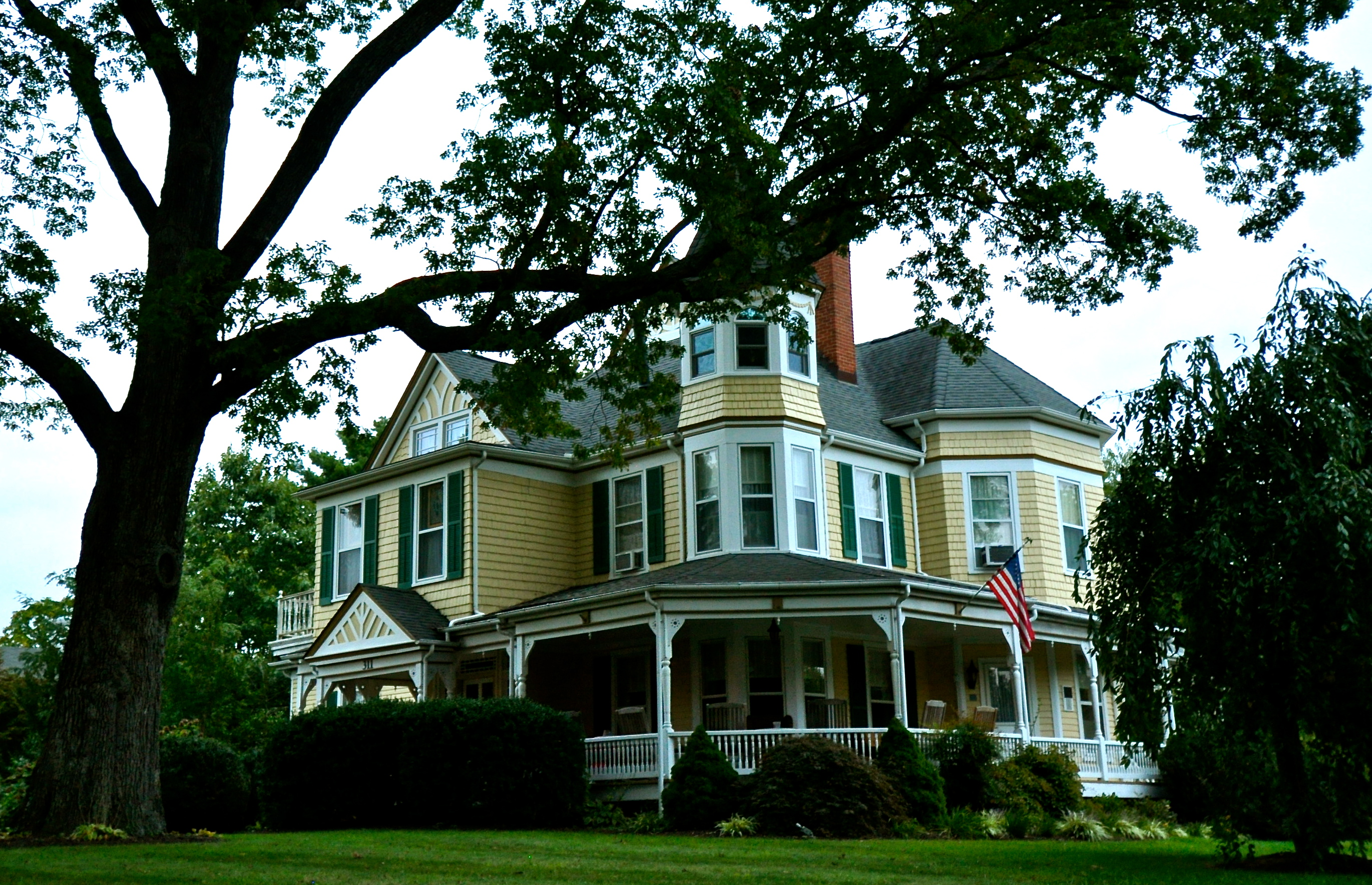 The Oaks